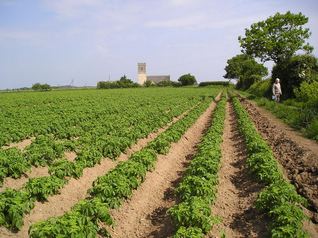 Norfolk potato field. Looking towards Lessingham Church and Happisburgh lighthouse in the distance